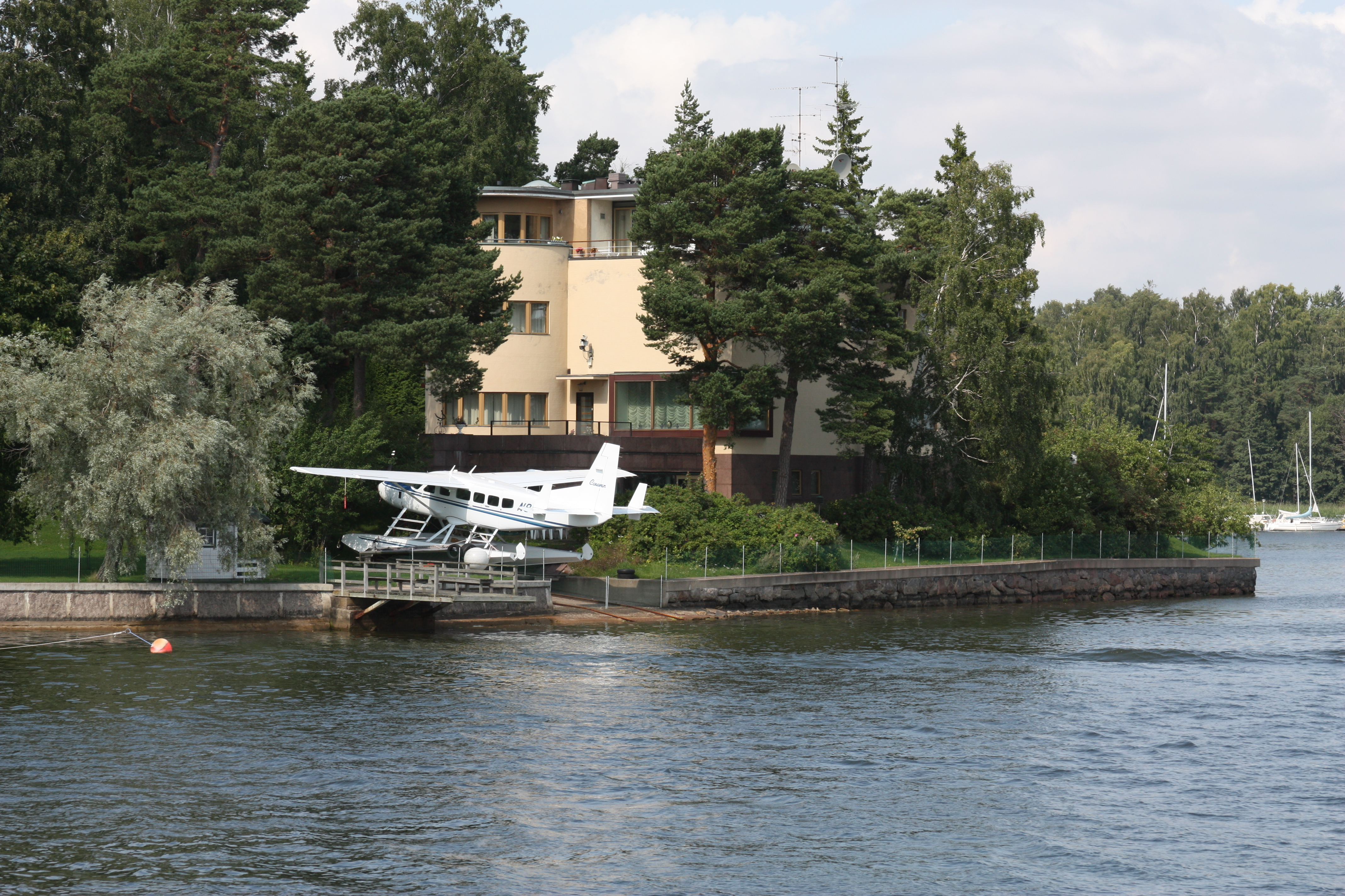 Helsinki; Private Cessna 208 Caravan Amphibian; registration N991Y